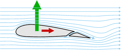 Streamlines around an airfoil with opened slotted flap.